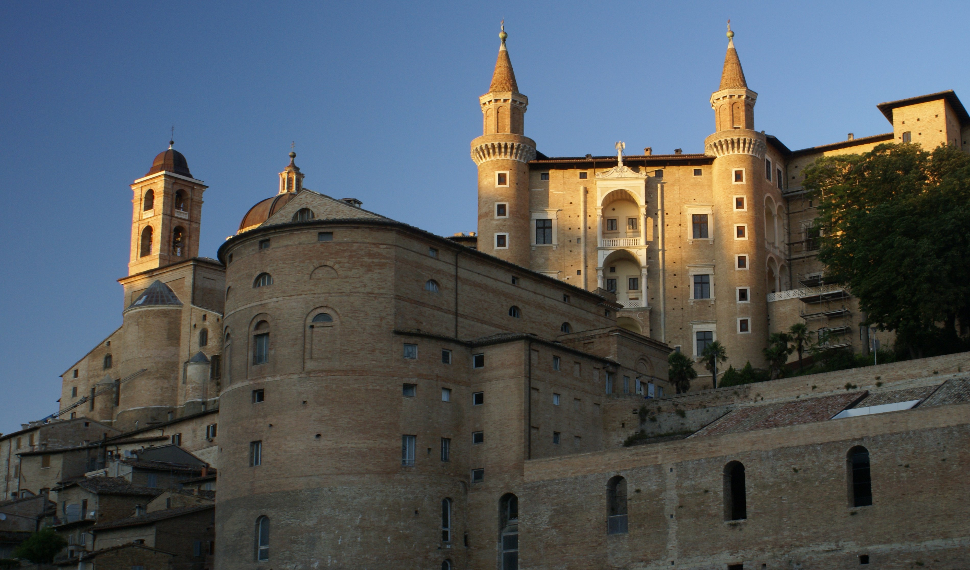 The facade of the Palazzo Ducale (Ducal Palace) in Urbino, Italy.